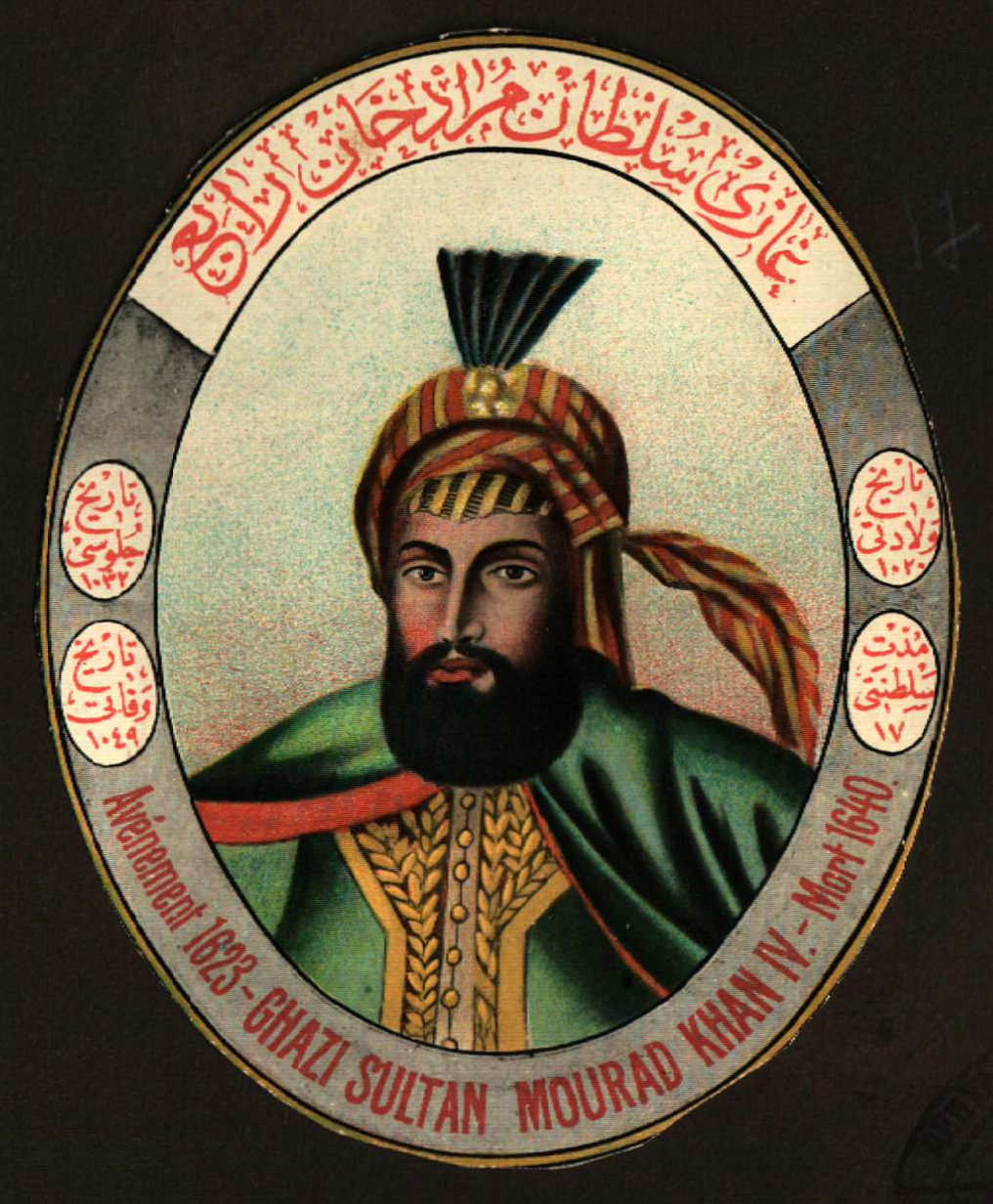 Murad IV